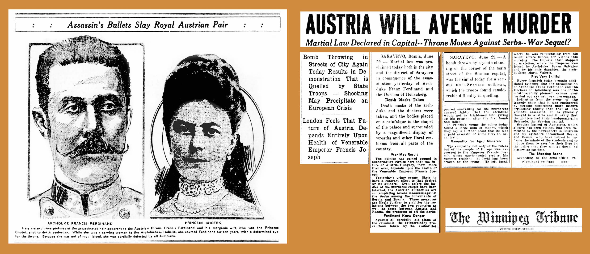 Newspaper article (The Winnipeg Tribune, 29 June 1914) of assassination of Archduke Franz Ferdinand of Austria and Sophie, Duchess of Hohenberg in Sarajevo, explicitly portending how "War May Result". Citation: (29 June 1914). "Austria Will Avenge Murder". The Winnipeg Tribune: 1. cite news |title=Austria Will Avenge Murder |url= |work=The Winnipeg Tribune |date=29 June 1914 |page=1 To prevent a "tall, thin" image, uploader digitally cut-and-pasted columns to form a compacted, horizontally oriented view. Viewers desiring a higher-resolution image can download Version 2, below (do not revert).